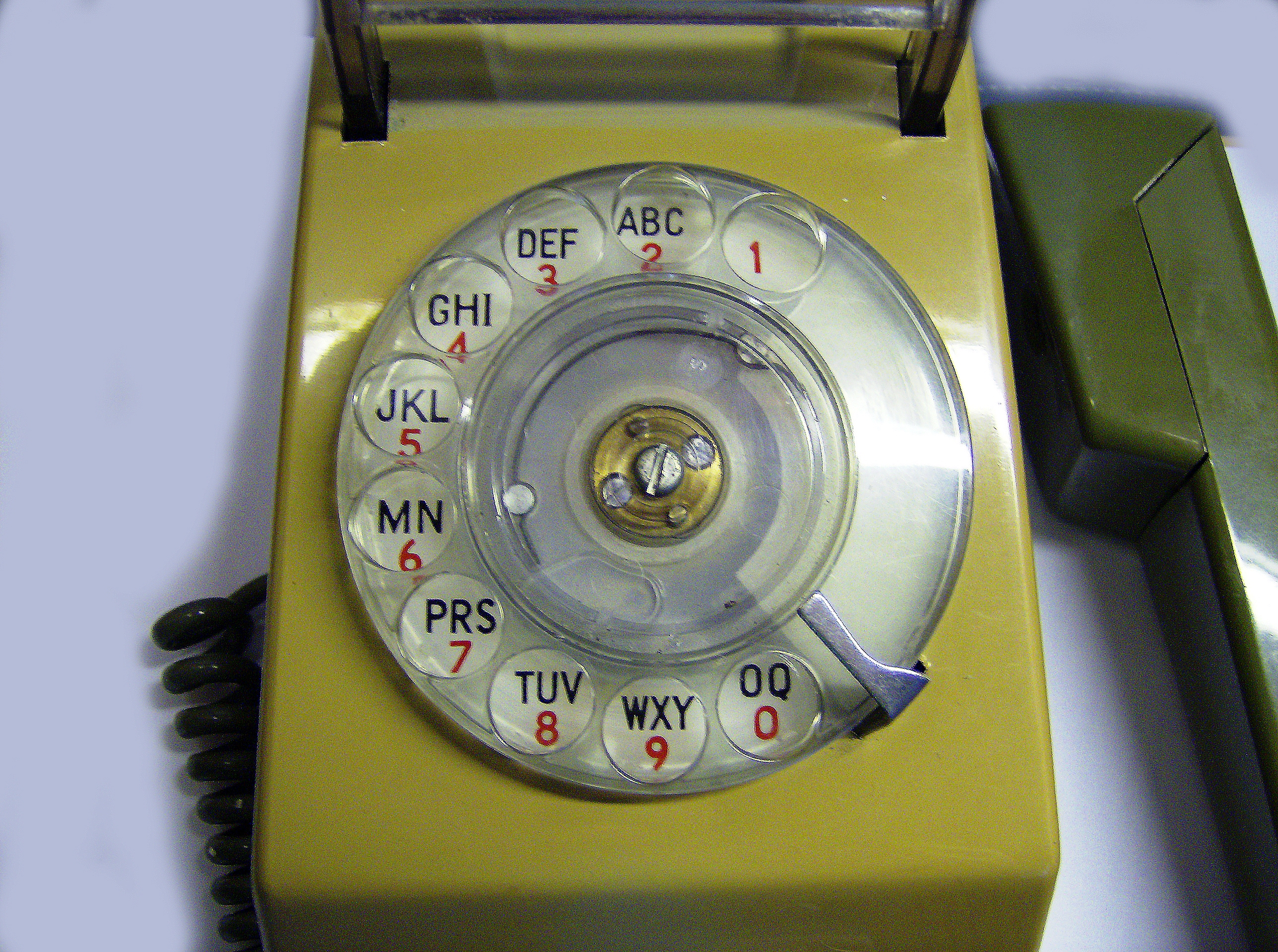 Image showing the dial of my Telephone No. 712